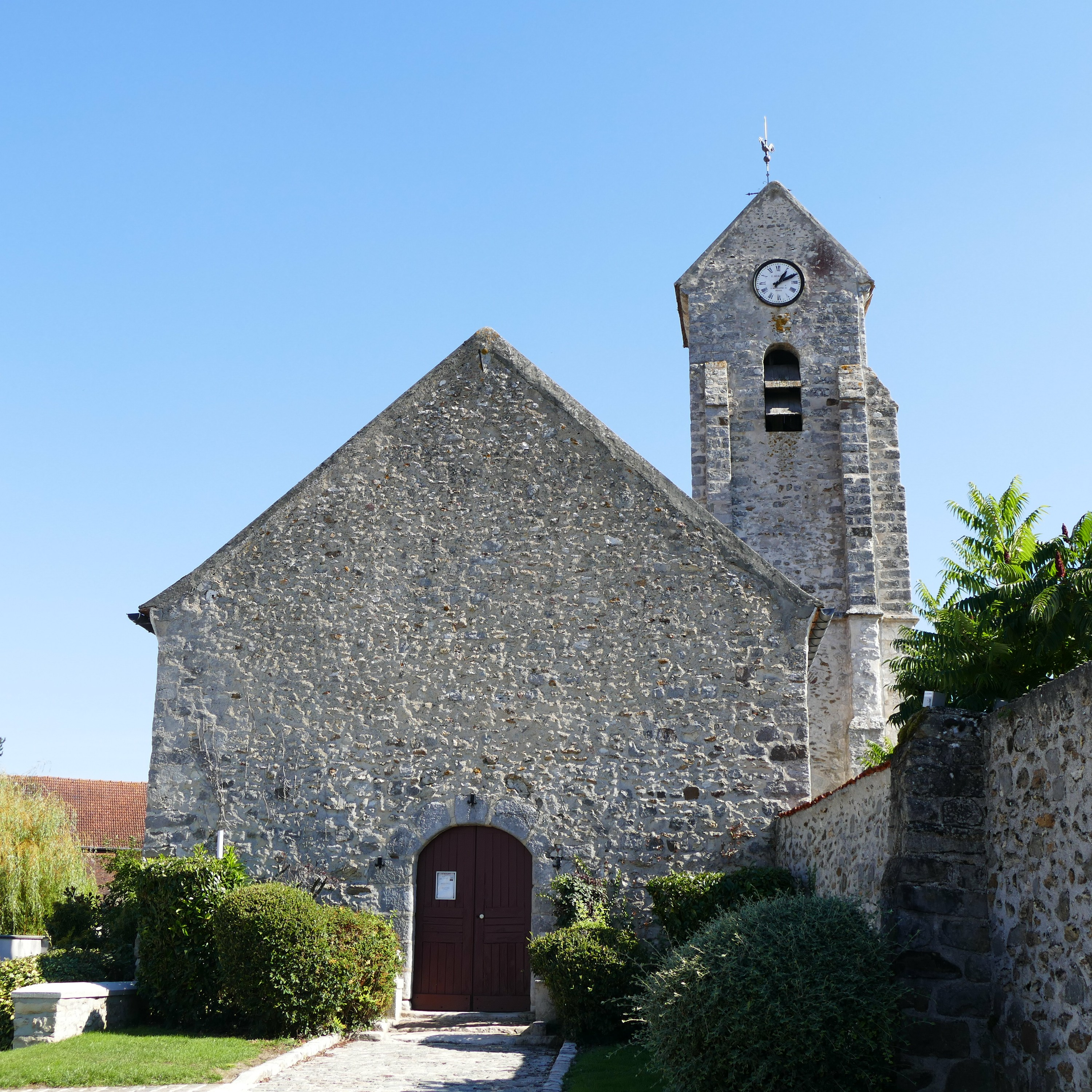 Saint-Médard's church in Limoges-Fourches (Seine-et-Marne, Île-de-France, France).